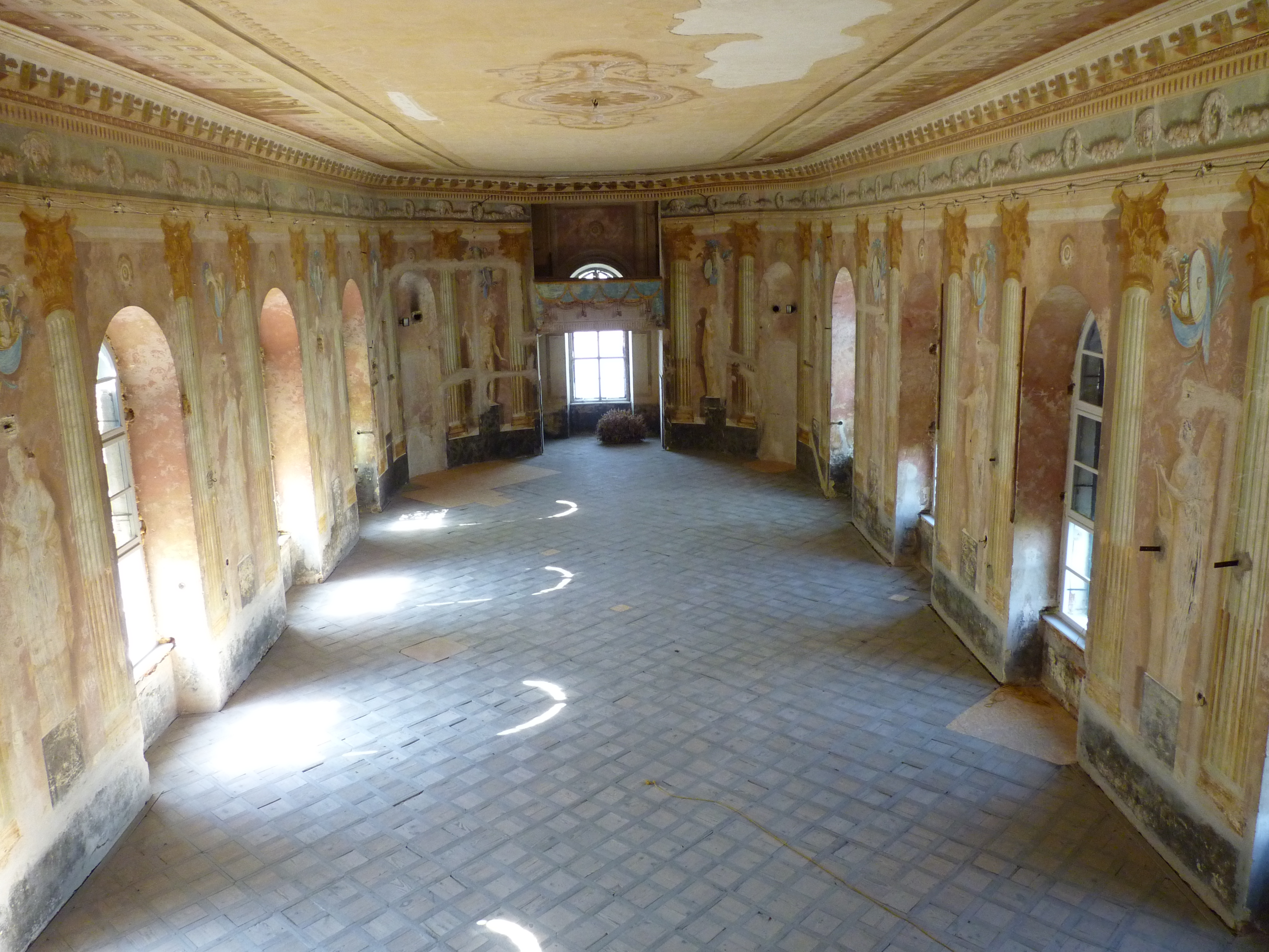 Uherčice Castle, Znojmo District, South Moravian Region, Czech Republic